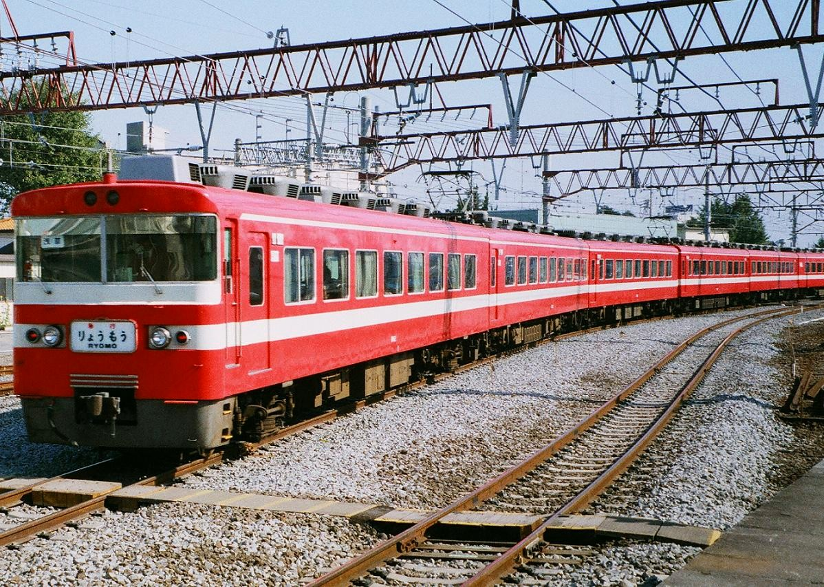 Tobu Railway 1800 series EMU on a "Ryomo" express service at Ōta Station